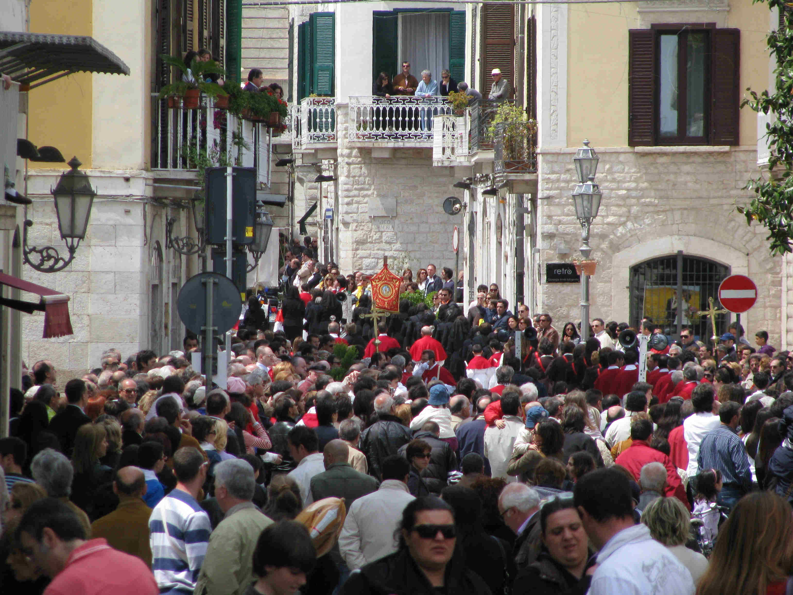 Croce di Colonna (Trani)